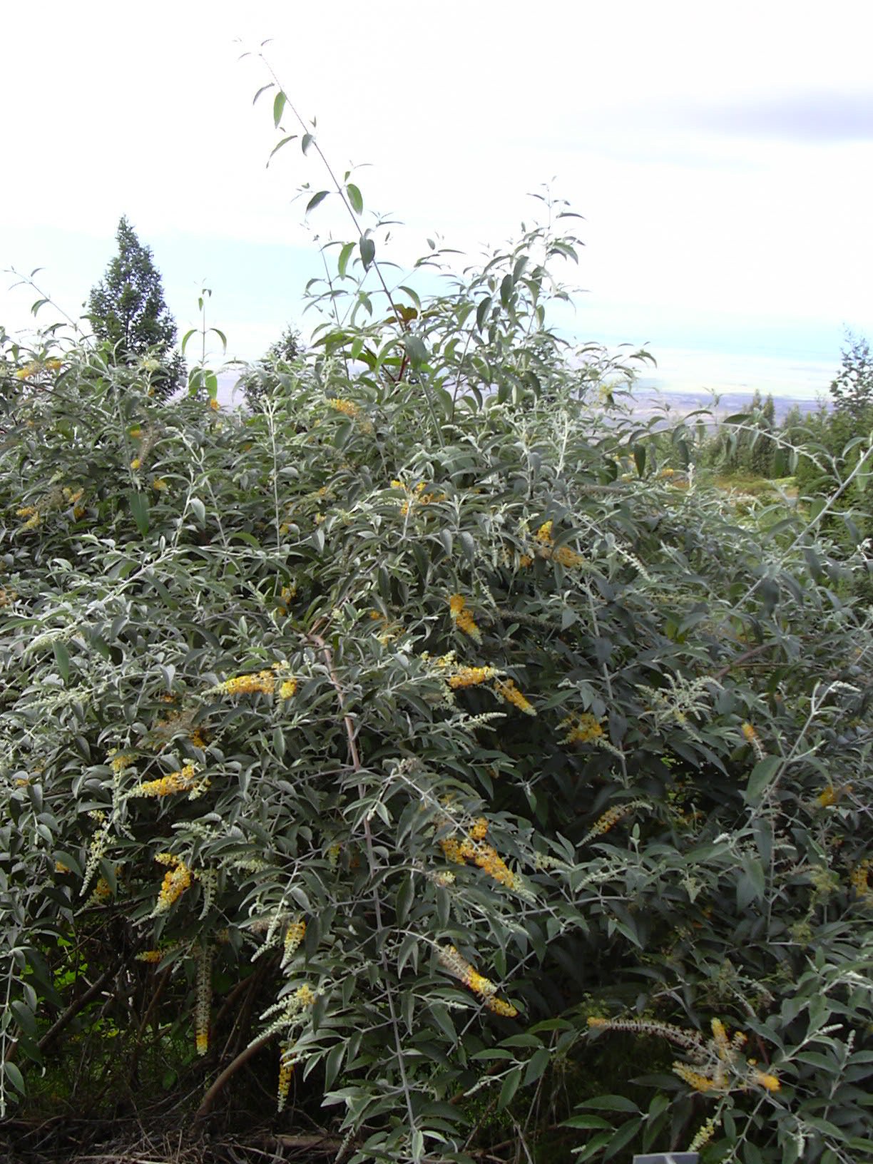 Buddleja madagascariensis (flowering). Location: Maui, Kula